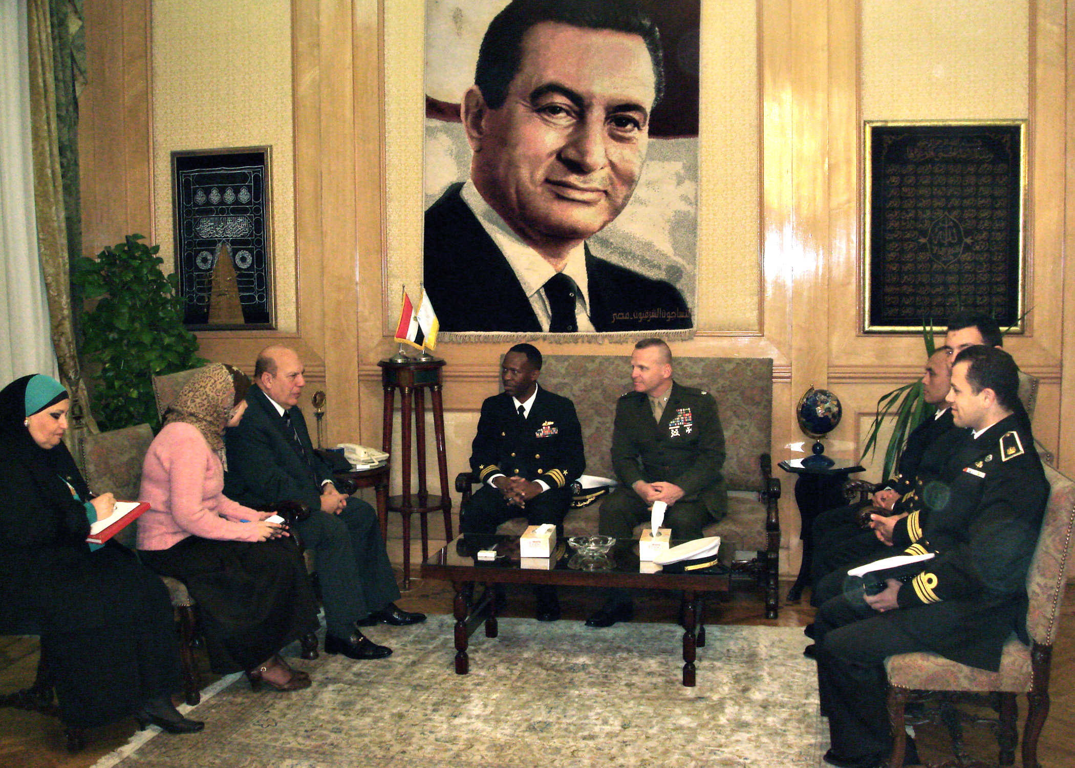 ALEXANDRIA, Egypt (Feb. 23, 2009) Cmdr. Eric Cash, center left, commanding officer of the amphibious transport dock ship USS San Antonio (LPD 17), and Lt. Col. John Giltz, center right, commanding officer of 26th Marine Expeditionary Unit (26 MEU), speak with Alexandria Gov. Gen. Adel Labib, left, during a visit to Egypt. San Antonio is in Alexandria to commemorate the 100th anniversary of "The Great White Fleet", a historic U.S. goodwill voyage around the world. (U.S. Navy photo by Lieutenant Charity C. Hardison/Released)